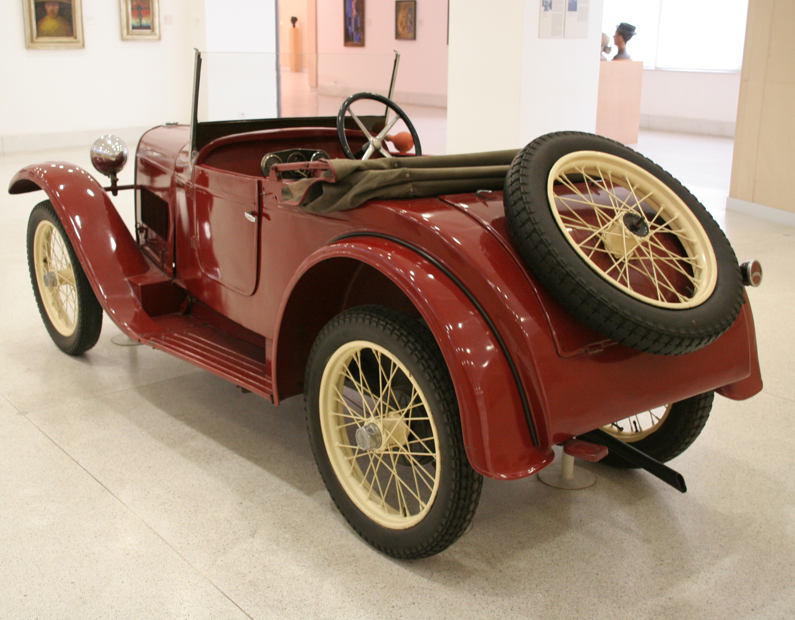 Aero 10 HP Automobile 1930. This small car had a single cylinder two-stroke engine. Seen in the Centre for Modern and Contemporary Art, Veletrzni (Trades Fair) Palace, Prague.